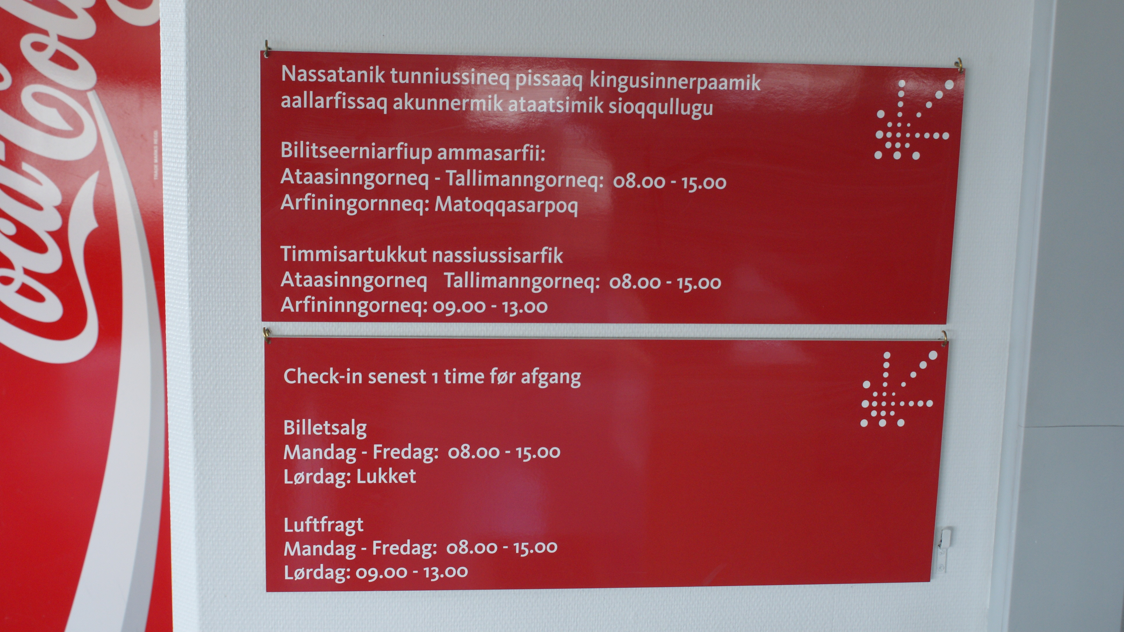 Sisimiut Airport, Greenland. Air Greenland - branded opening hours and check-in notice in Kalaallisut (Greenlandic) and Danish.